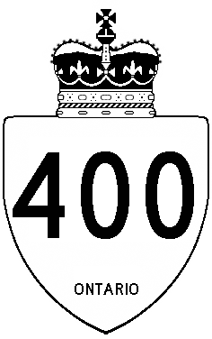 A picture of the unique primary shield of Ontario Provincial Highway 400.This picture is intended for description and is not intended to be authoritative.